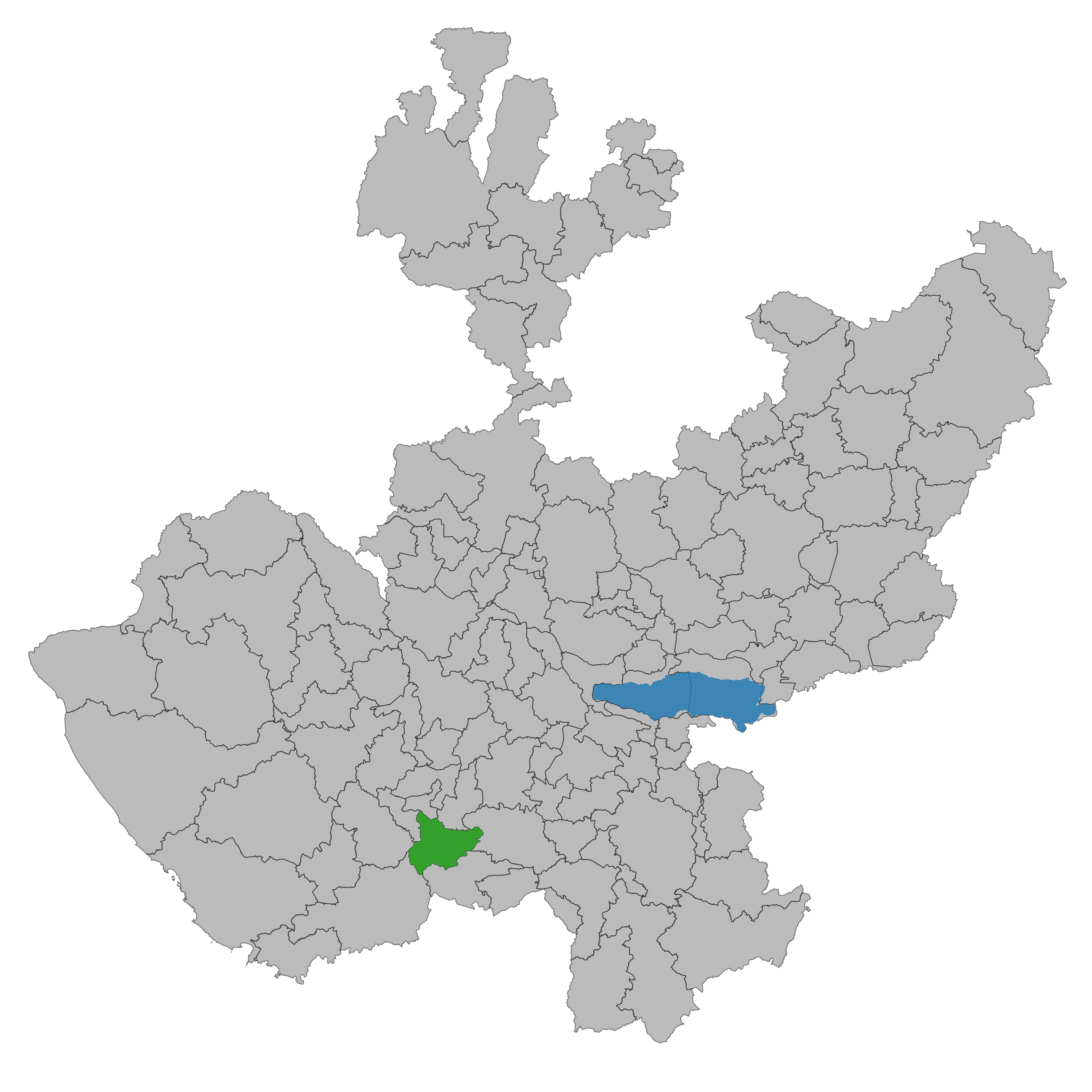 Municipality of Jalisco. Prepared with the software QGIS version 2.8.2 Wien & with information of SCINCE 2010 version 05/2013